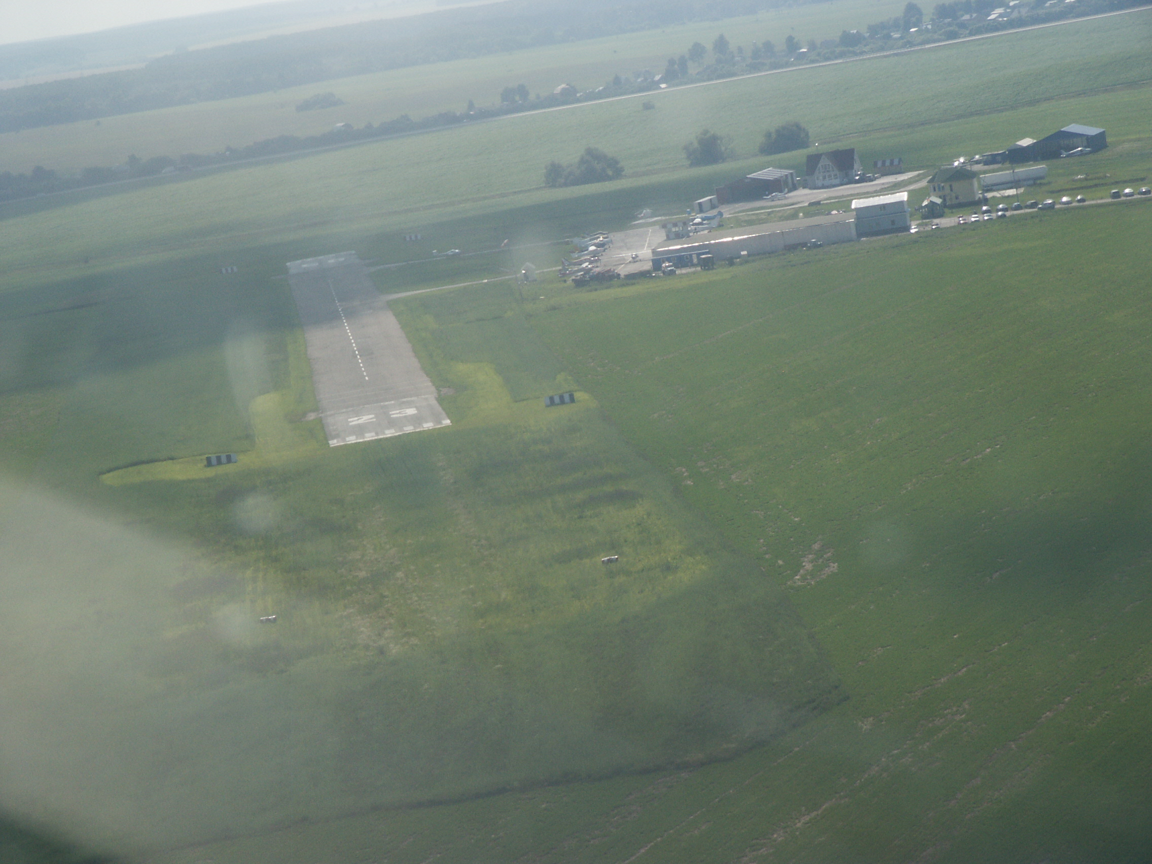 Severka airport runway